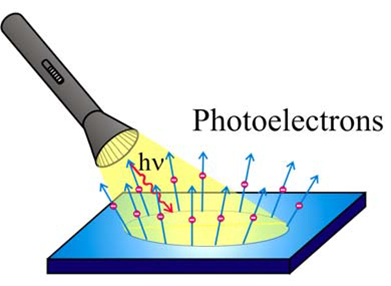 Photoelectric effect